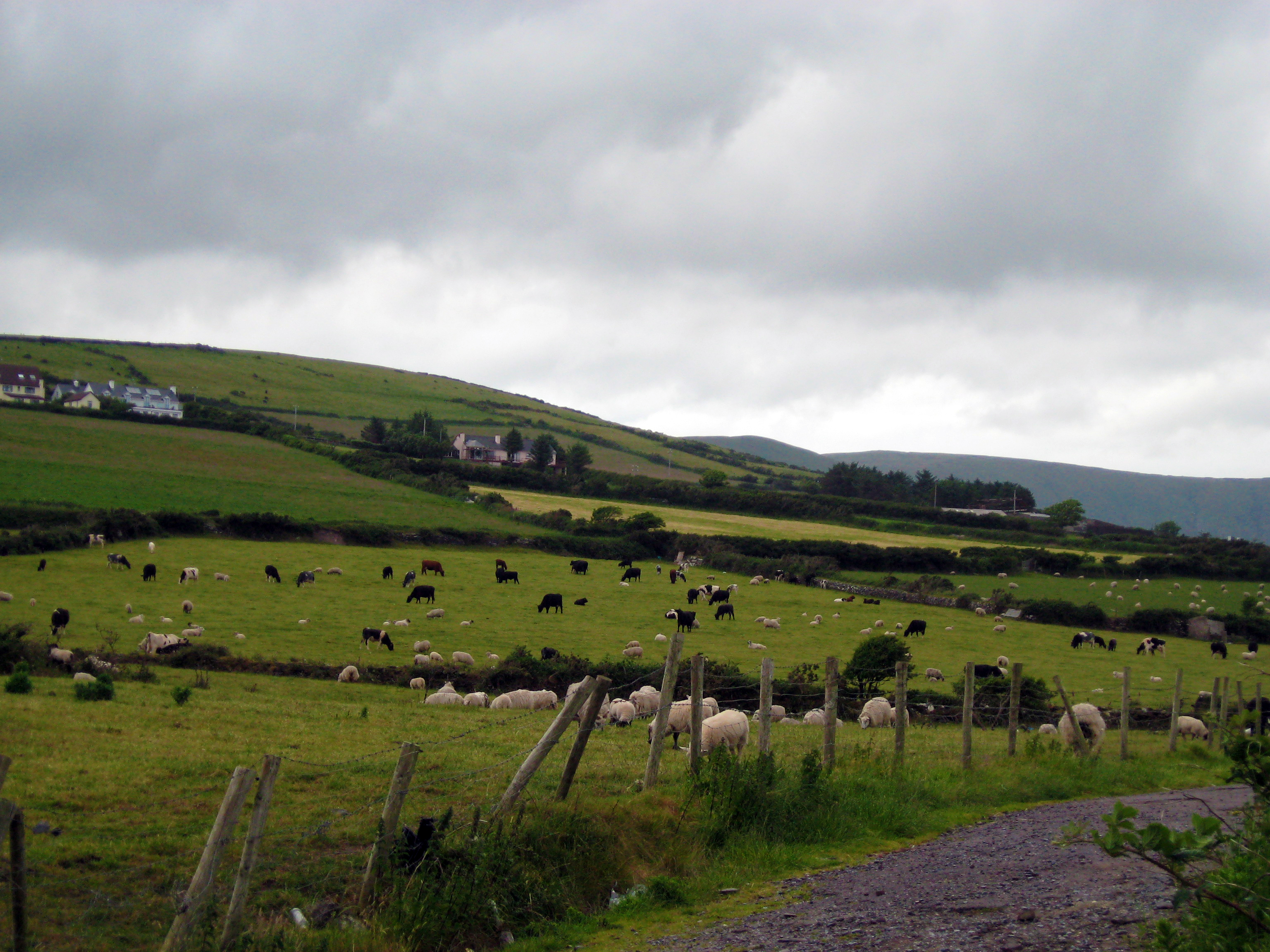 This is a picture of the fauna that you will typically see in Ireland, and especially on the Dingle Peninsula on the walk from downtown Dingle to a tower known as Hussey's Folley